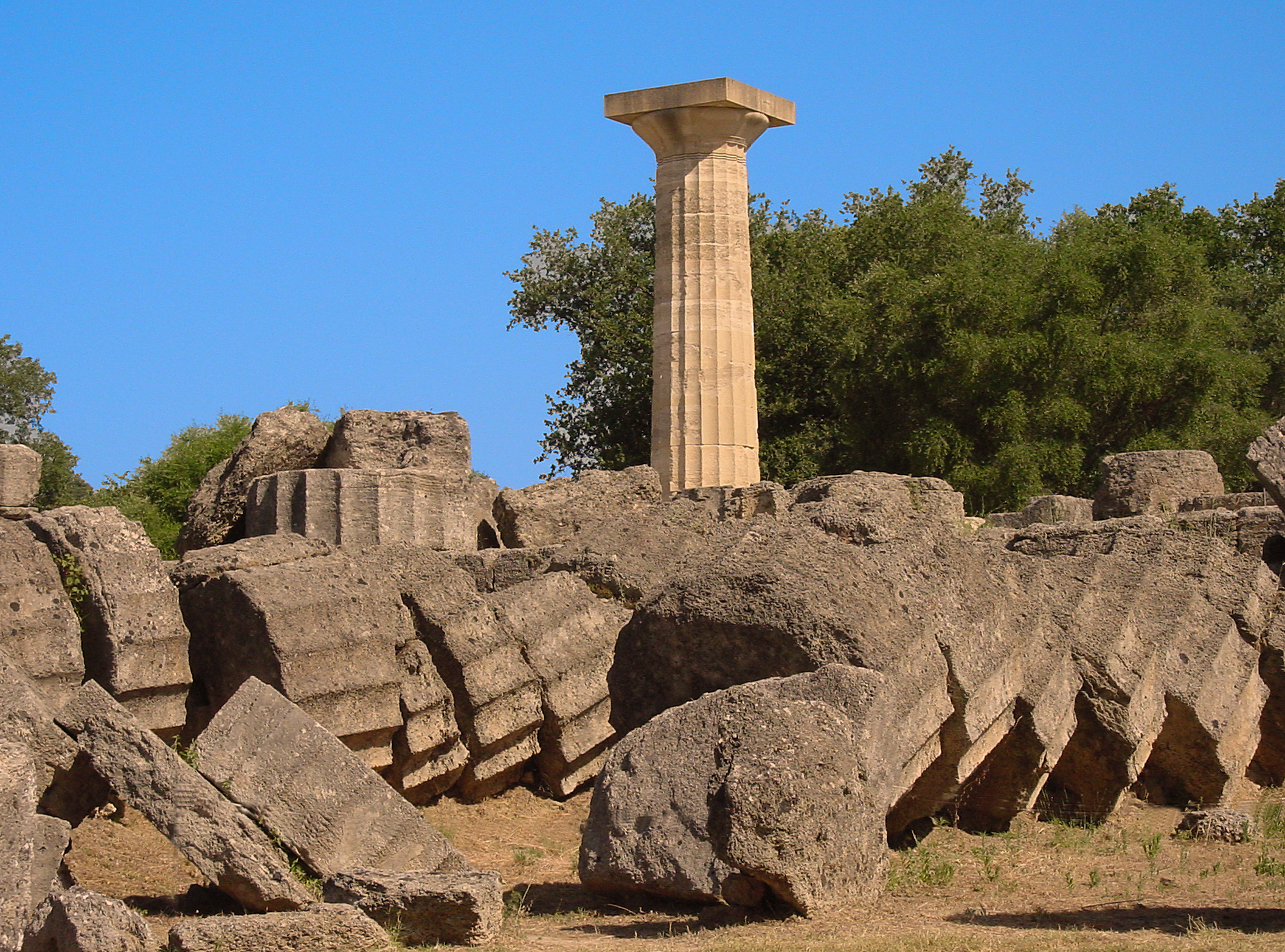 Olympia (19)